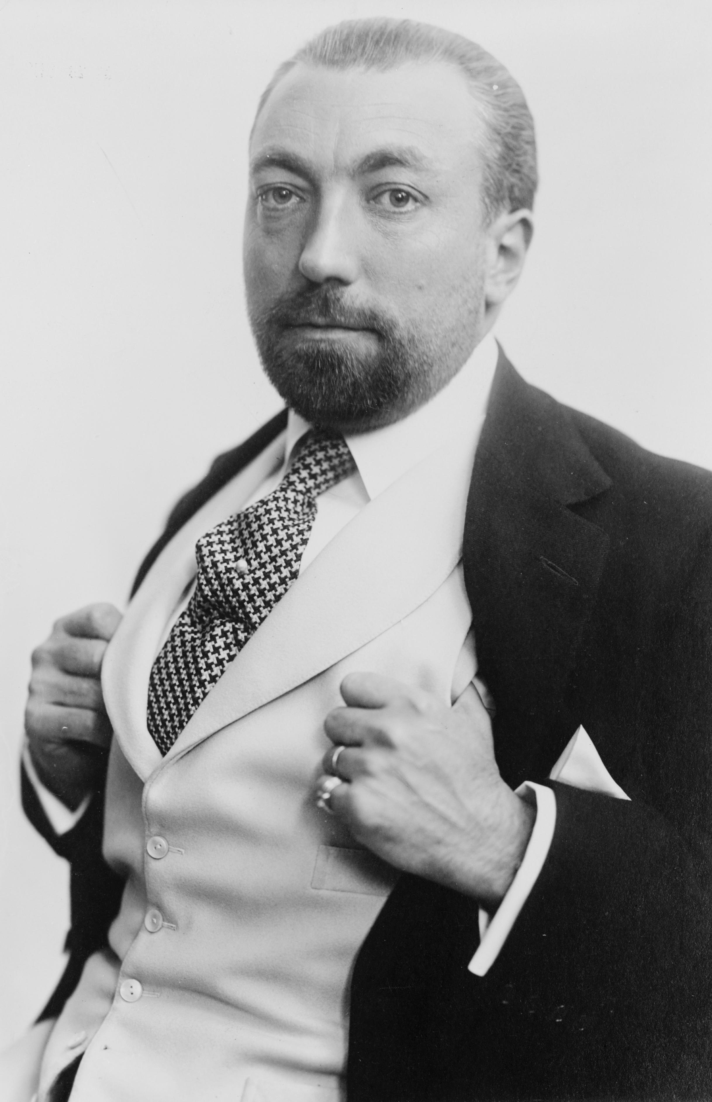 TITLE: [Paul Poiret, half-length portrait, facing left] CALL NUMBER: BIOG FILE - Poiret, Paul, 1879-1944 [P&P] REPRODUCTION NUMBER: LC-USZ62-100840 (b&w film copy neg.) MEDIUM: 1 photographic print. CREATED/PUBLISHED: c1913. NOTES: J186851 U.S. Copyright Office. SUBJECTS: Poiret, Paul. FORMAT: Portrait photographs 1910-1920. Photographic prints 1910-1920. DIGITAL ID: (b&w film copy neg.) cph 3c00840 CARD #: 90715144